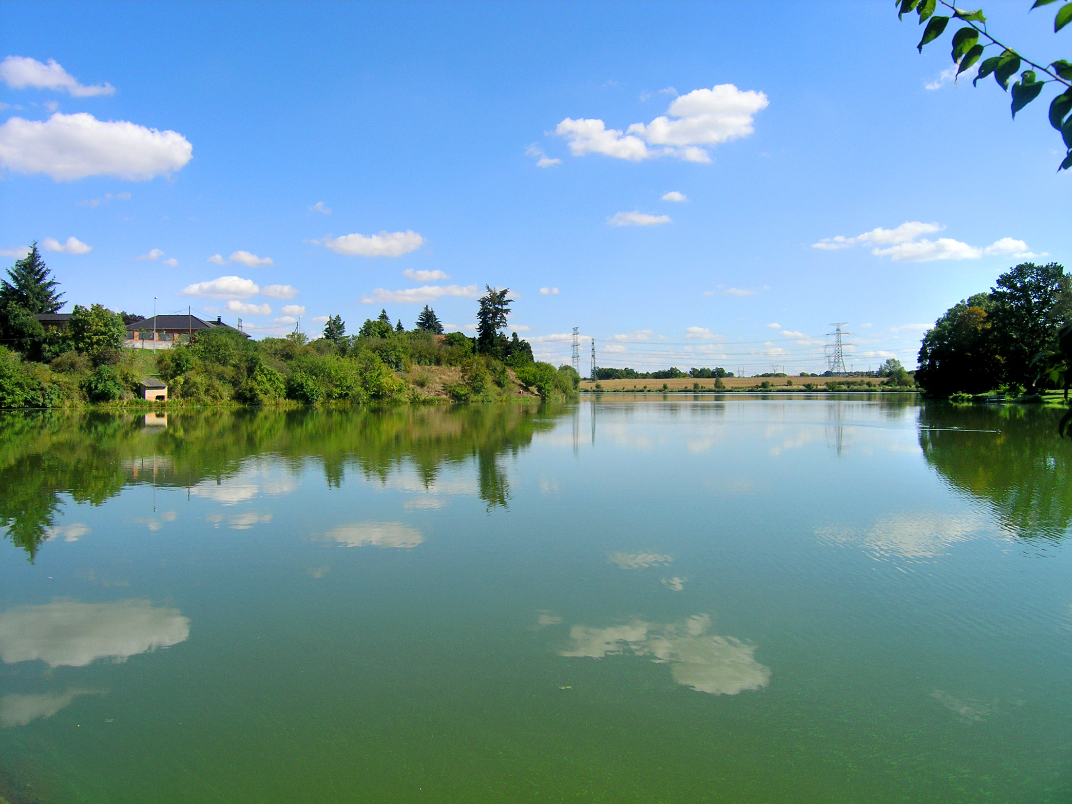 Šeberák pond in Kunratice, Prague